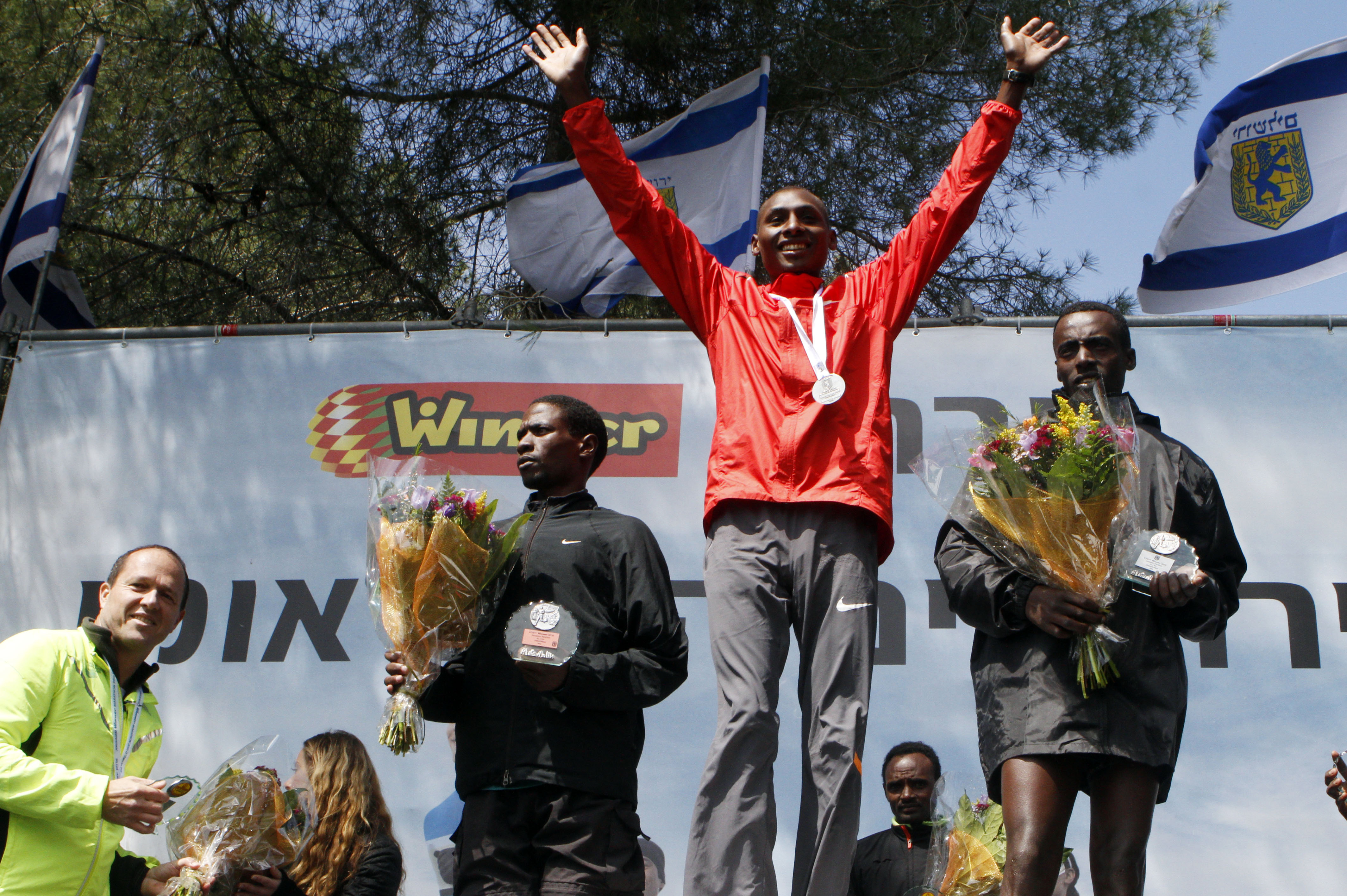 David Cherono Toniok, the winner of Jerusalem Marathon 2012.